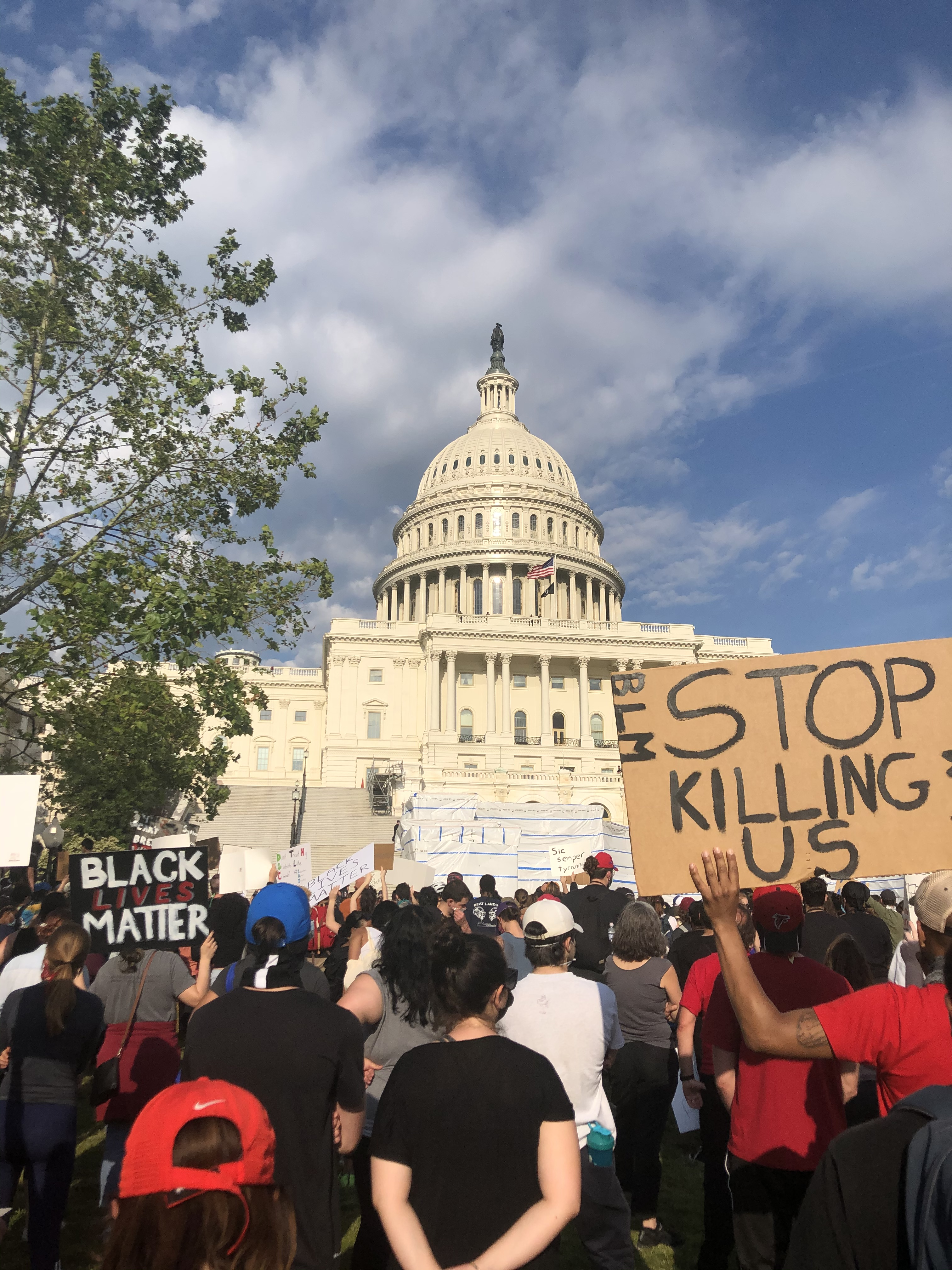 This image is of one main group of the George Floyd protestors in DC, taken at 6:18pm local time on Tuesday, June 2.